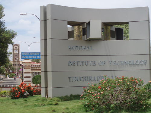 trichy